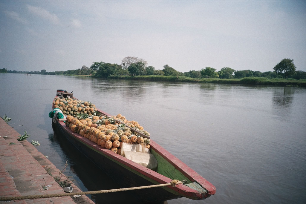 boat over the Magdalena river, Colombia